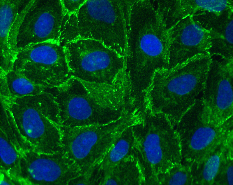 Cadherin pan human endothel, dapi blue